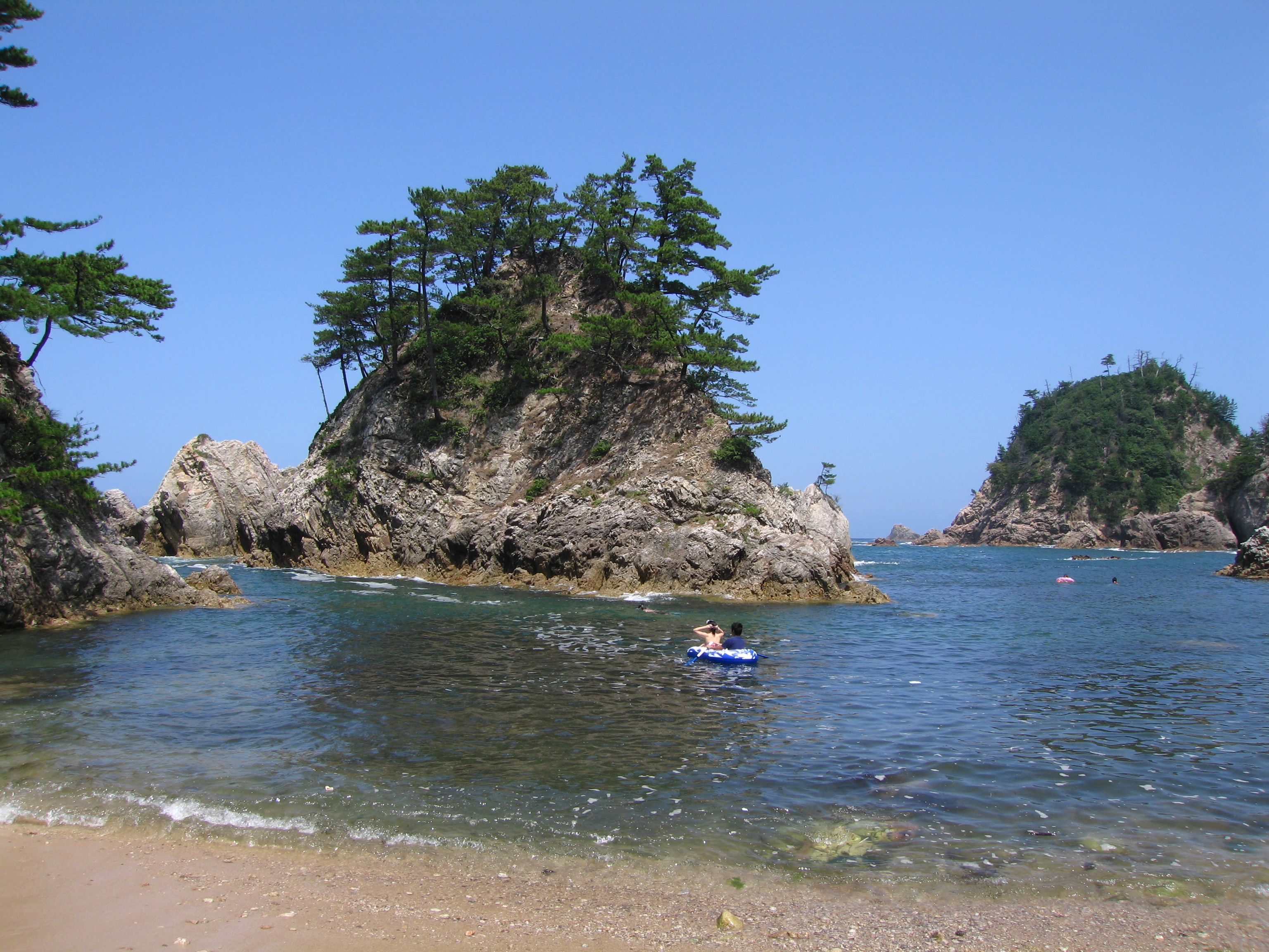 Kamogaiso,Uradome-Kaigan,Iwami-town,Tottori-pref.Aug,2004. Pinus thunbergii in native habitat.